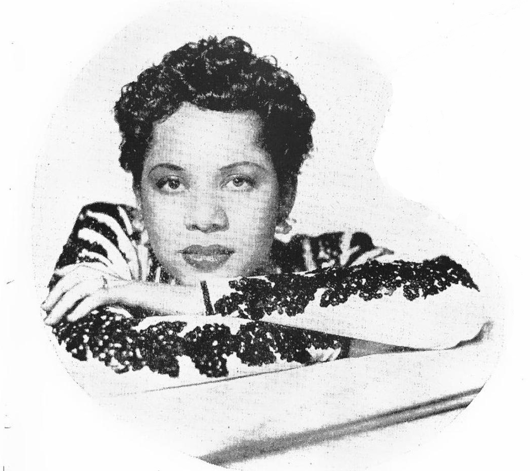 Dorothy Donegan